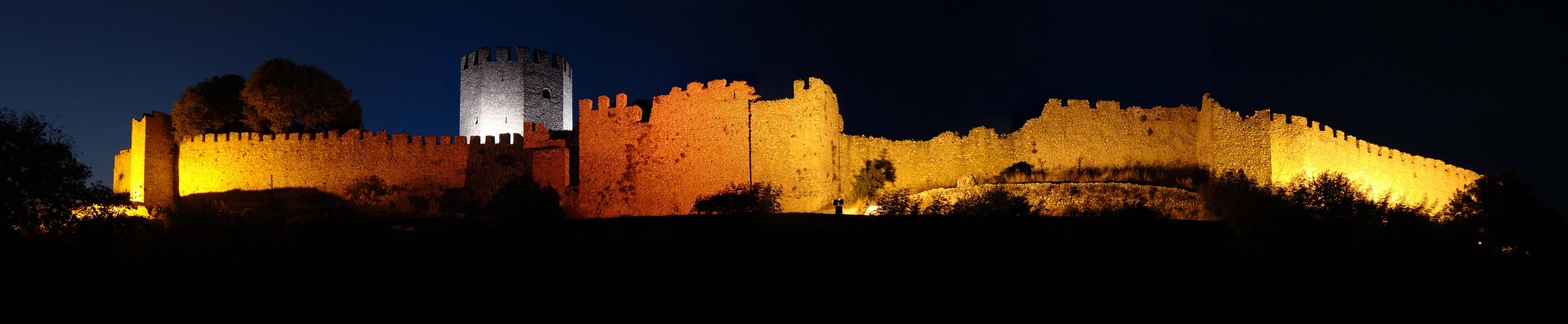 The Castle of Platamon, Greece.